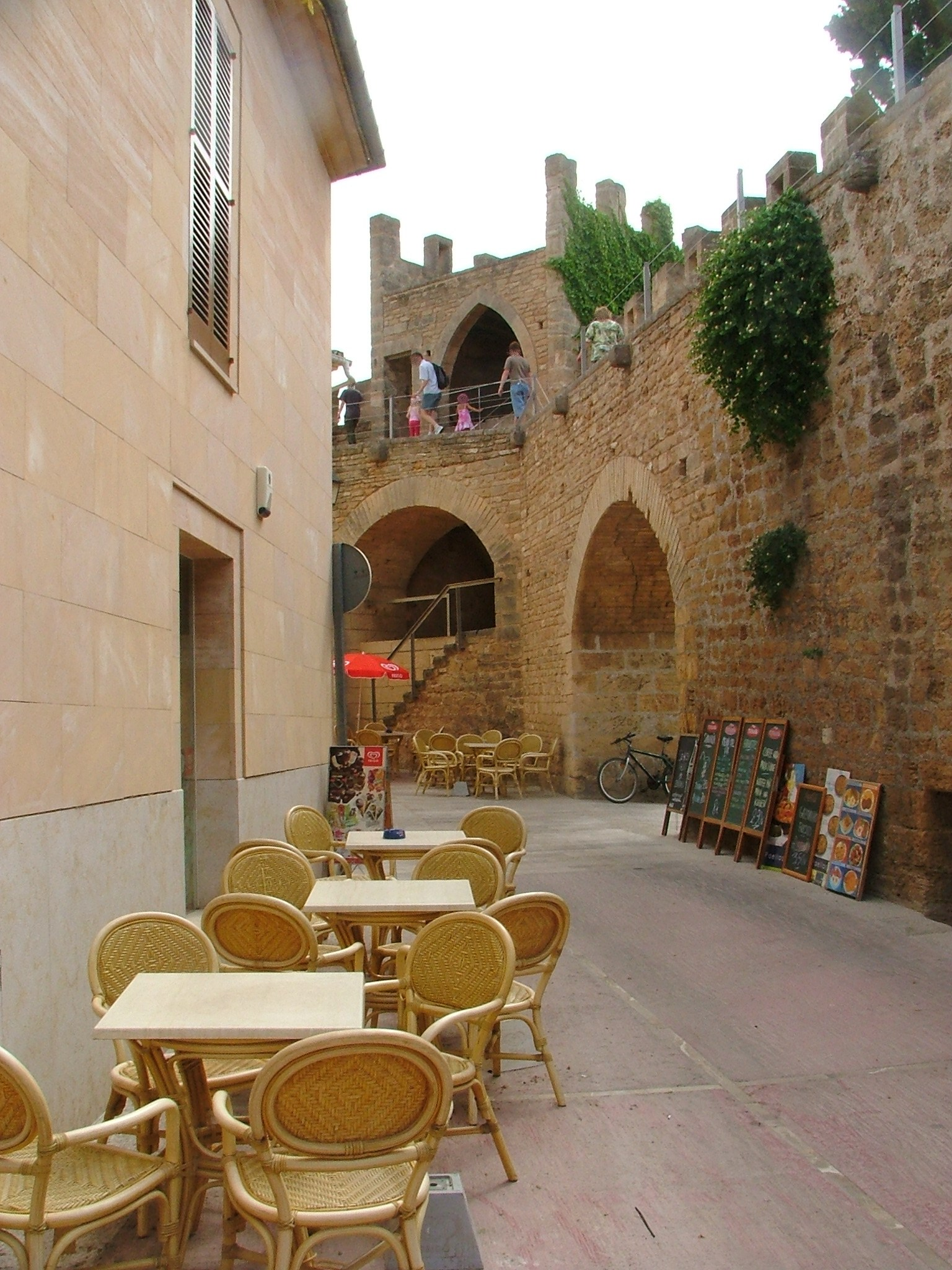 City walls or Muralla of Alcudia, Mallorca, Spain